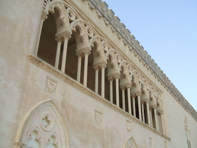 Castle of Donnafugata (Ragusa, Sicily) : XIXth century ; detail of the loggia.